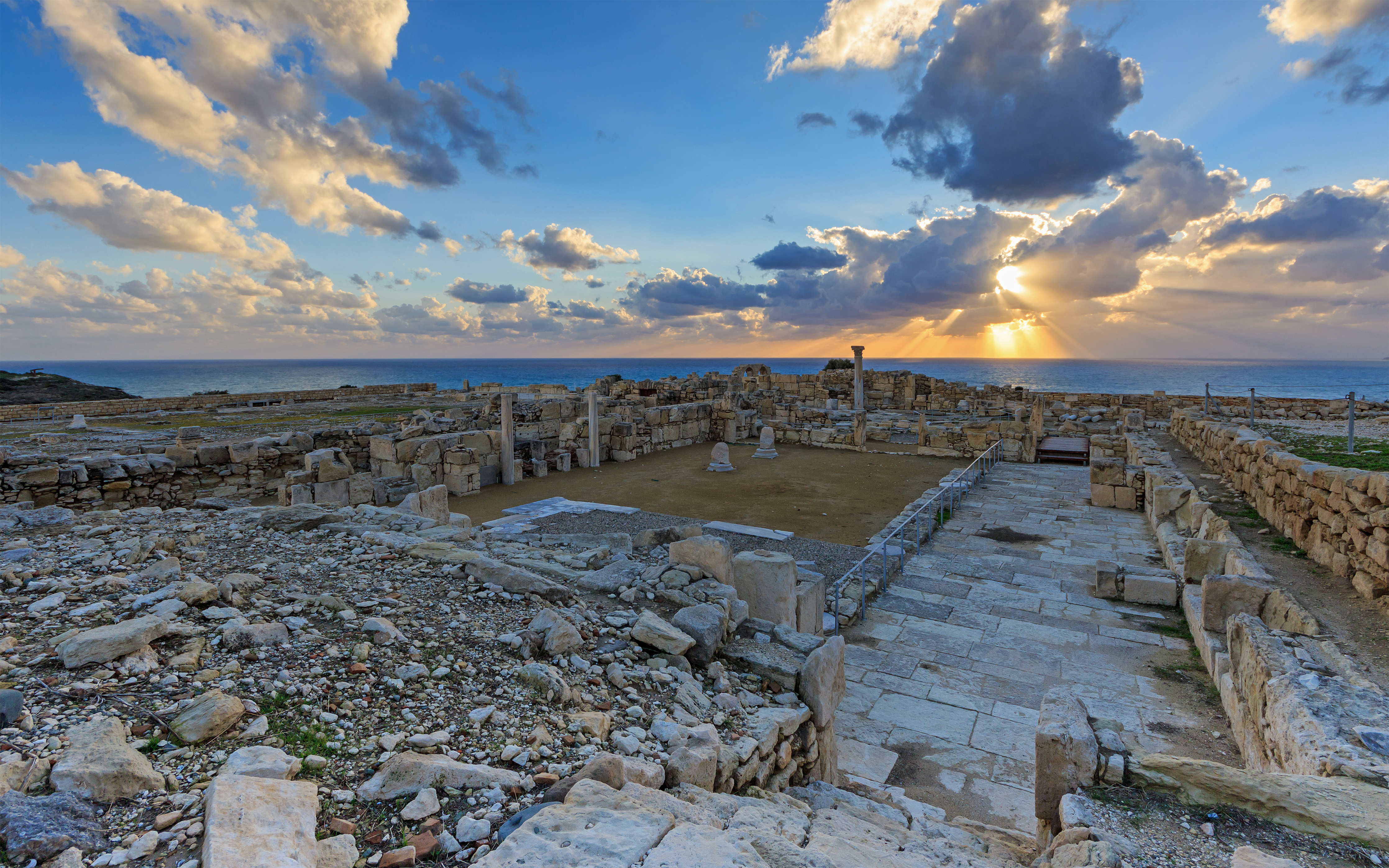 Ancient town of Kourion near Limassol, Cyprus. Early Christian Basilica.